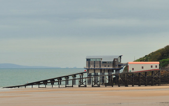 Tenby Life Boat Stations Tenby Life Boat Stations, The Old one and the New One